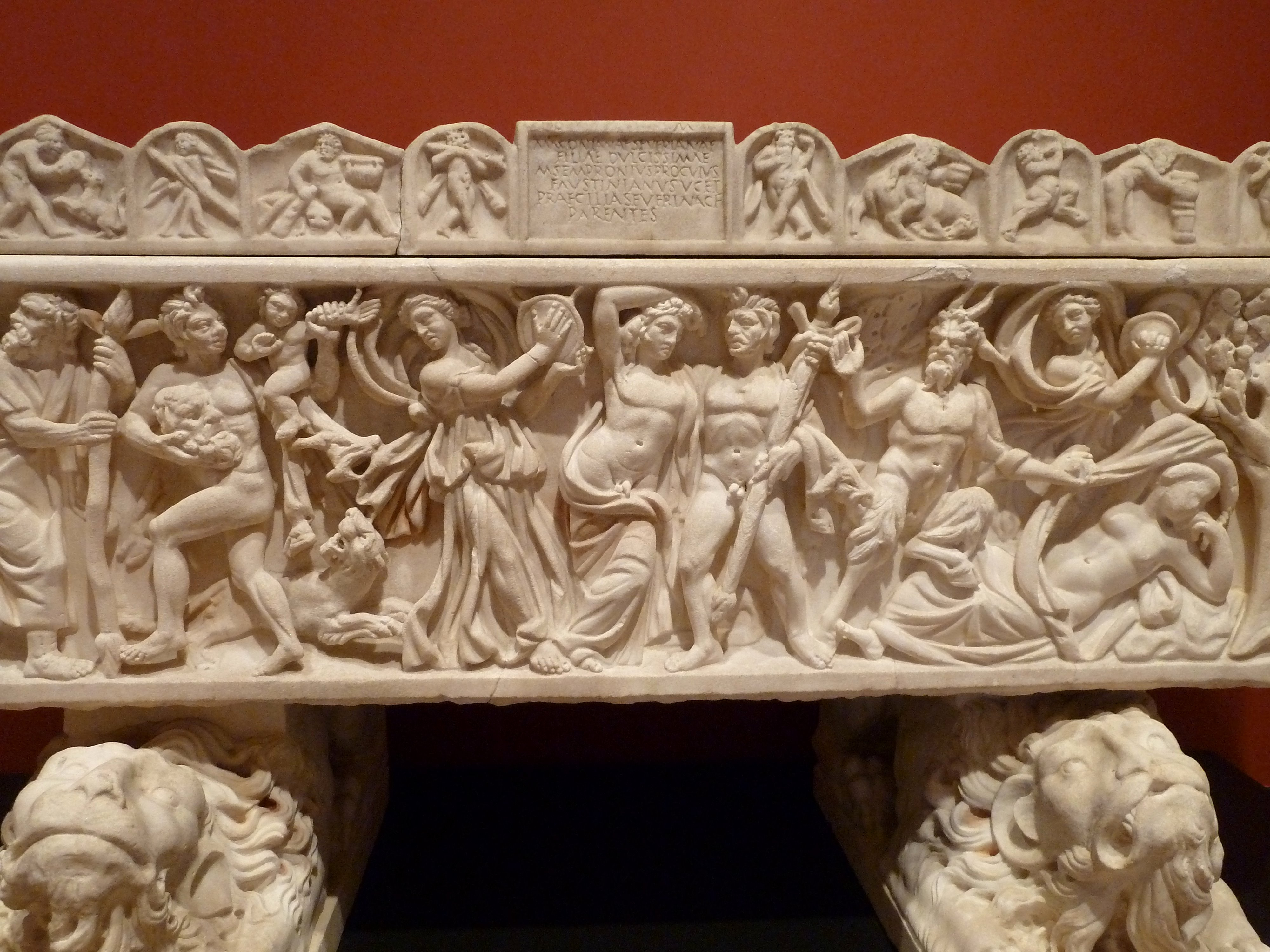 Weddings of Dionysos and Ariadne. The Latin inscription identifies the girl for whom this sarcophagus was made as Maconiana Severiana, member of a wealthy senatorial family. Ariadne's face was probably left unfinished to be completed as a portrait of Maconiana. The lion supports were added sometime after the discovery of the sarcophagus in Rome in 1873. Roman marble sarcophagus, 210–220.